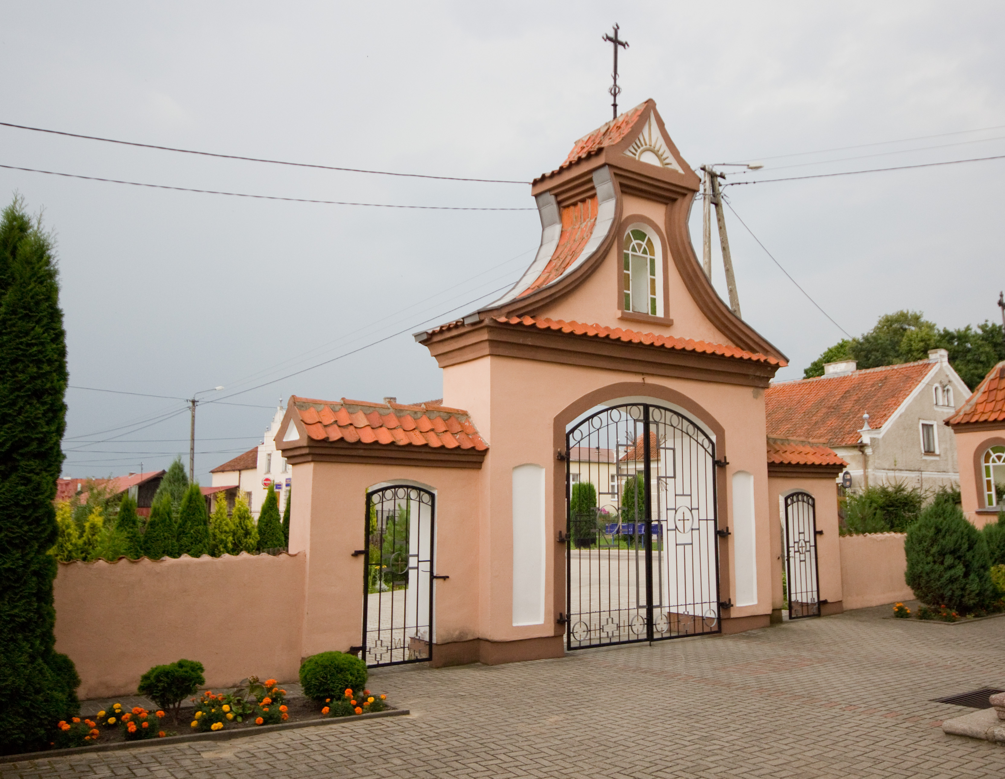 Church, Franknowo, gmina Jeziorany, powiat olsztyński, Warmian-Masurian Voivodeship